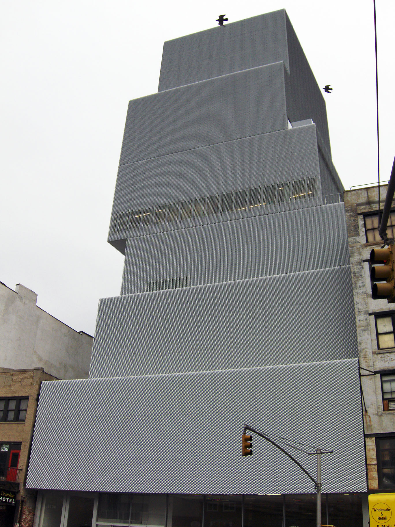 Front of the New Museum of Contemporary Art in New York.